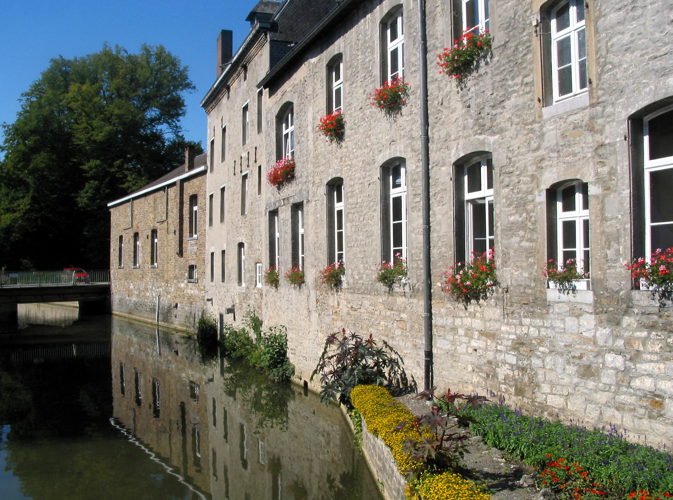 Yvoir (Belgium), the Bocq river alongside the south wing of the communal house Walon: Yuwâr (Bèljike), li Bok londjant l'éle au mîdi dol môjon comunale.